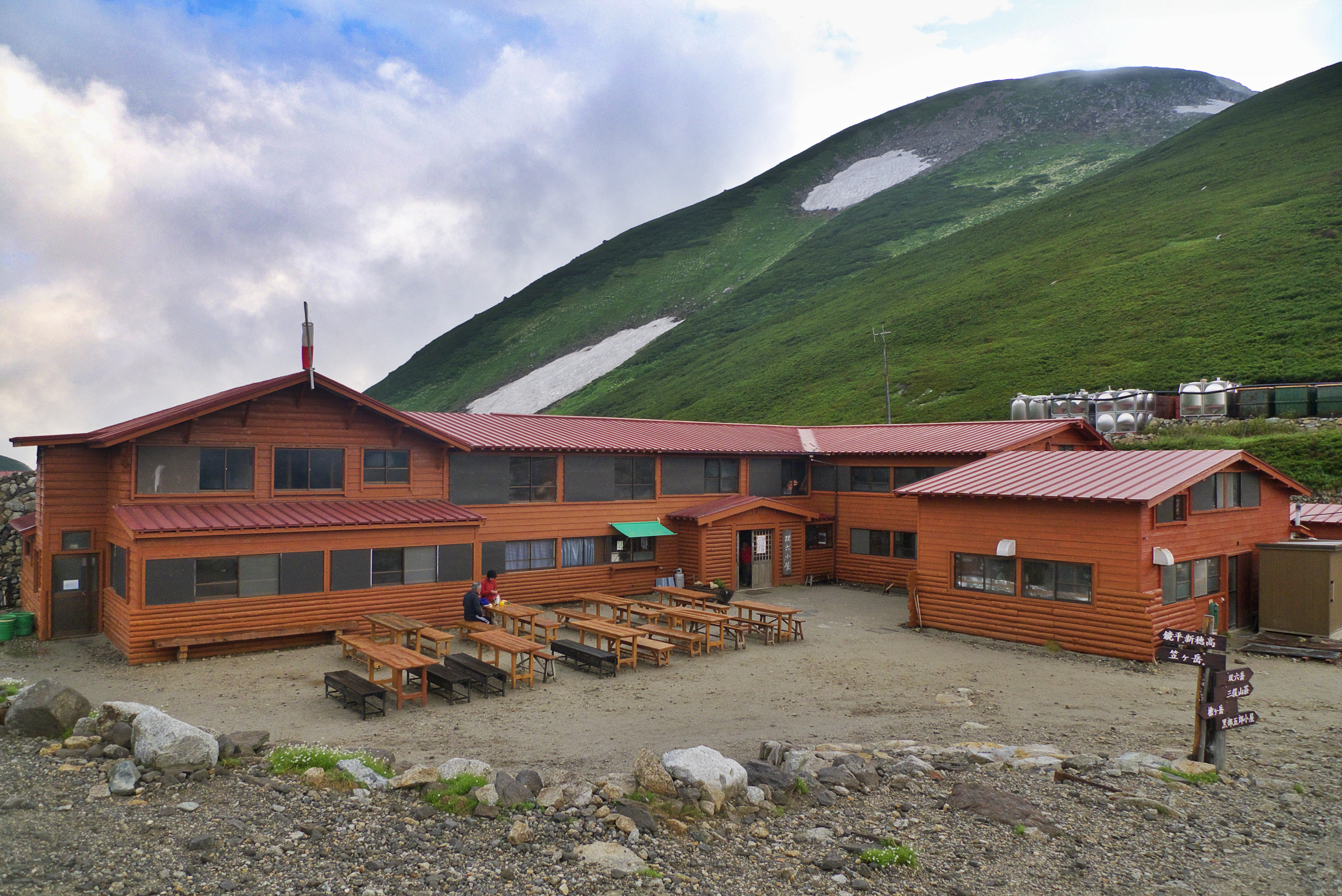 Sugorokugoya ("Sugoroku Hut") in the Hida Mountains, Japan